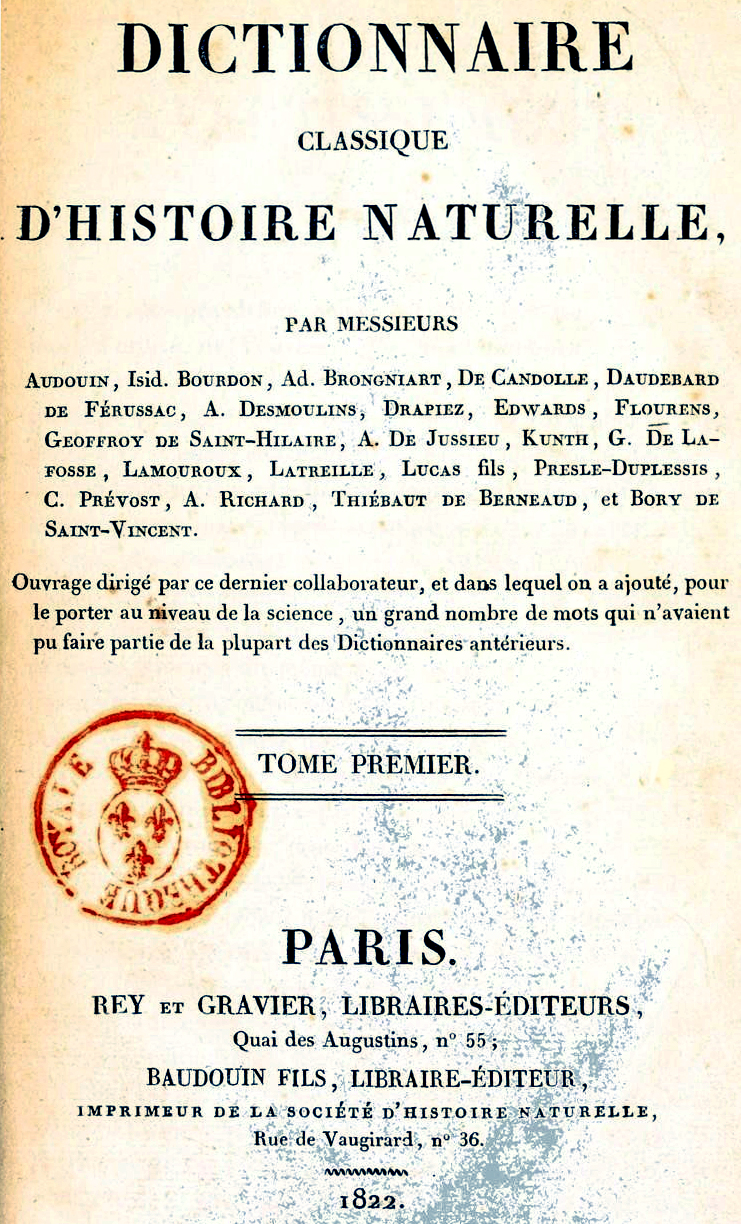 Dictionnaire classique d’histoire naturelle, par Messieurs Audoin, Bourdon, Brongniart, de Candolle, Daudebard de Férussac, Desmoulins, Drapiez, Edwards, Flourens, Geoffroy de Saint-Hilaire, Jussieu, Kunth, de Lafosse, Lamouroux, Latreille, Lucas fils, Presles-Duplessis, Prévost, Richard, Thiébaut de Bernard. Ouvrage dirigé par Bory de Saint-Vincent, Paris, Rey et Gravier, Baudouin frères, 1822-1831, 17 volumes in-8, 160 planches gravées et coloriées.